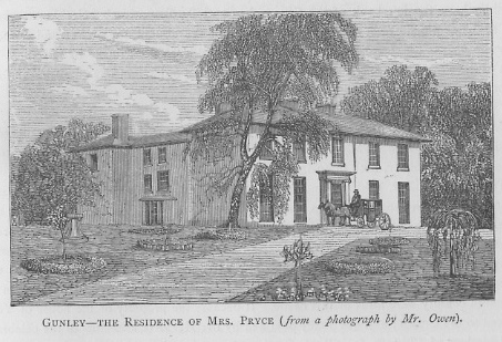 Gunley Hall, Montgomeryshire Thomas Nicholls “Annals and Antiquities of the Counties and County Families of Wales, Longmans, London 1872. Vol 2, 799